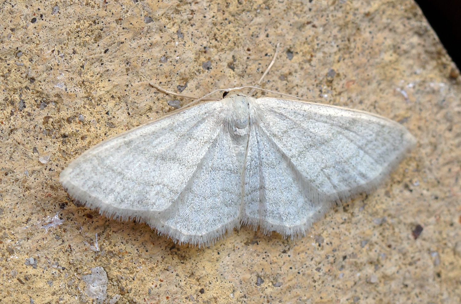 A trip down to Dungeness in Kent on Saturday night proved to be the coolest conditions we have experienced for a while, with clear skies, bright moon and misty air coming from the sea. As you can imagine it wasn't great and the moths were few and far between, but I did manage a few new ones for me. Yellow Belle, Pale Grass Eggar, Antler Moth, Celypha cespitana, Aroga velocella and Cynaeda dentalis were all new for me. There are still some Bactra's to confirm and a few unidentified micros to sort out. All in all despite the catastrophic weather I was pleased to pick up some new ones.